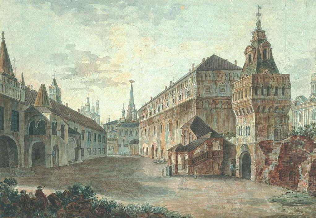 An 18th century drawing of the Gerbovaya tower in Moscow Kremlin (demolished in 1807)